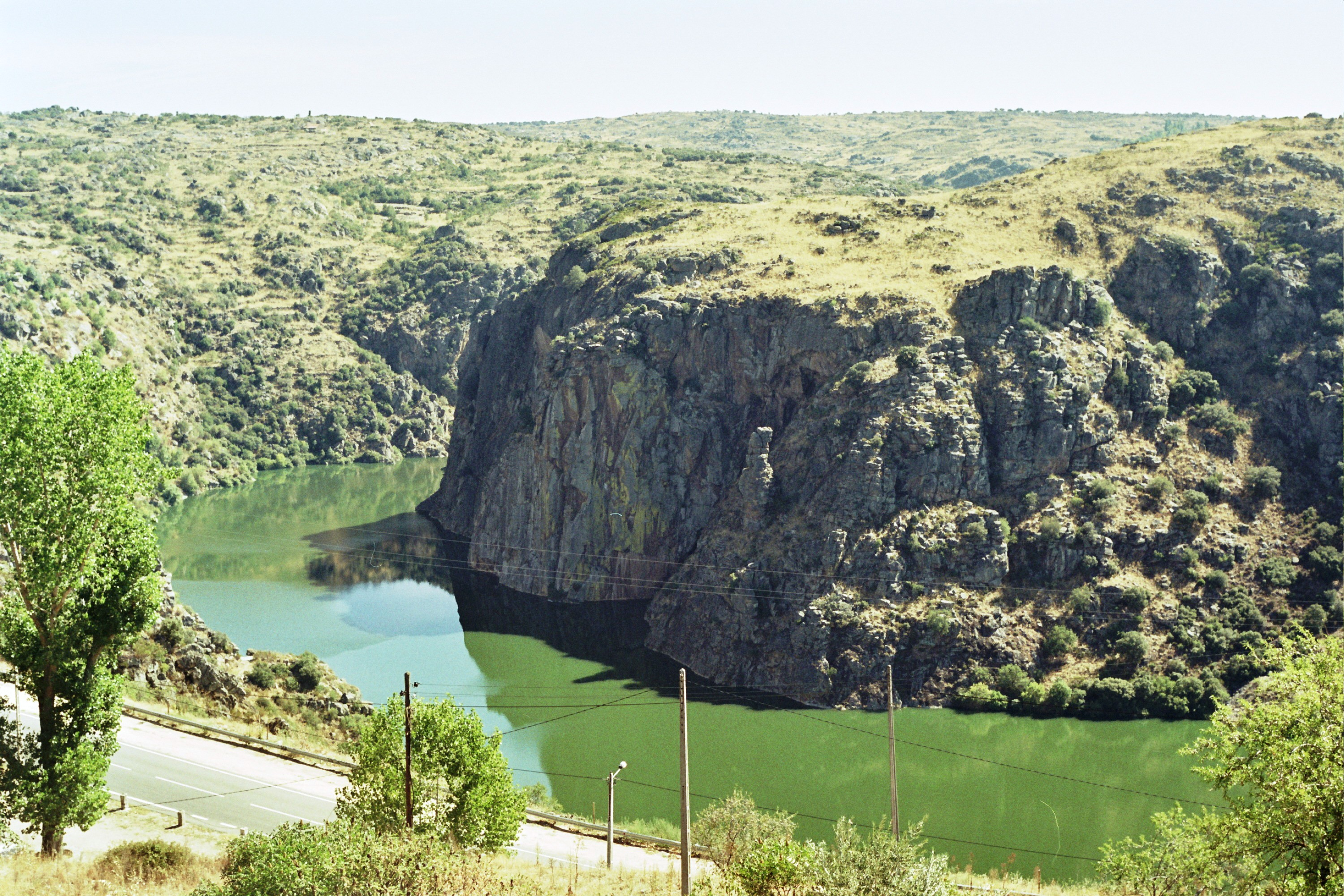 Parque Natural do Douro Internacional (